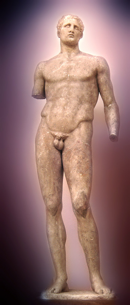 Statue of Hagias, possibly by Lysippos or his son Euthykrates (RIDGWAY, B. Hellenistic sculpture, 2001), from the votive of Daochos II in Delphi. Marble copy of a bronze original. Missing right arm and left hand, knees and calves. The nose is slightly damaged.